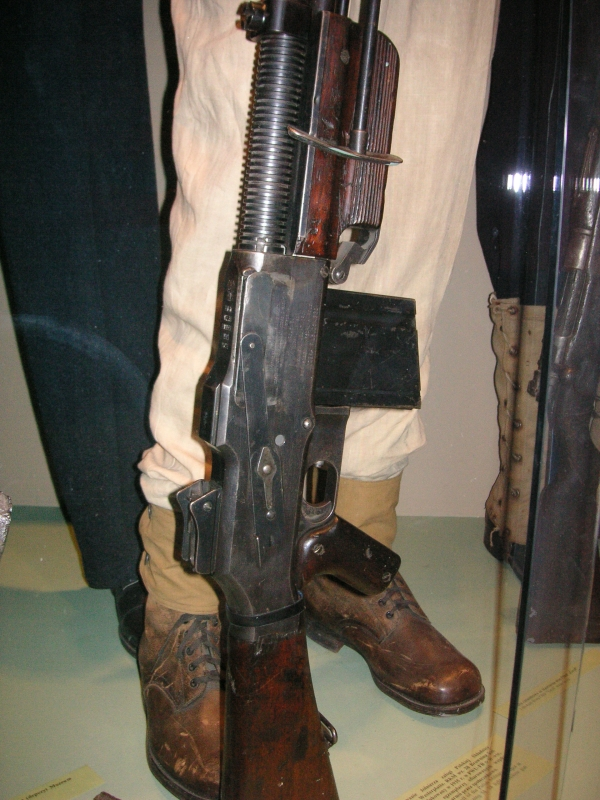 made during a summer day in Warsaw's Museum of the Polish Army; Firing mechanism of the Browning wz. 1928 LMG